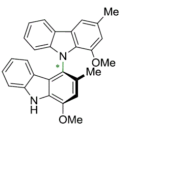 Heterobiariaryls